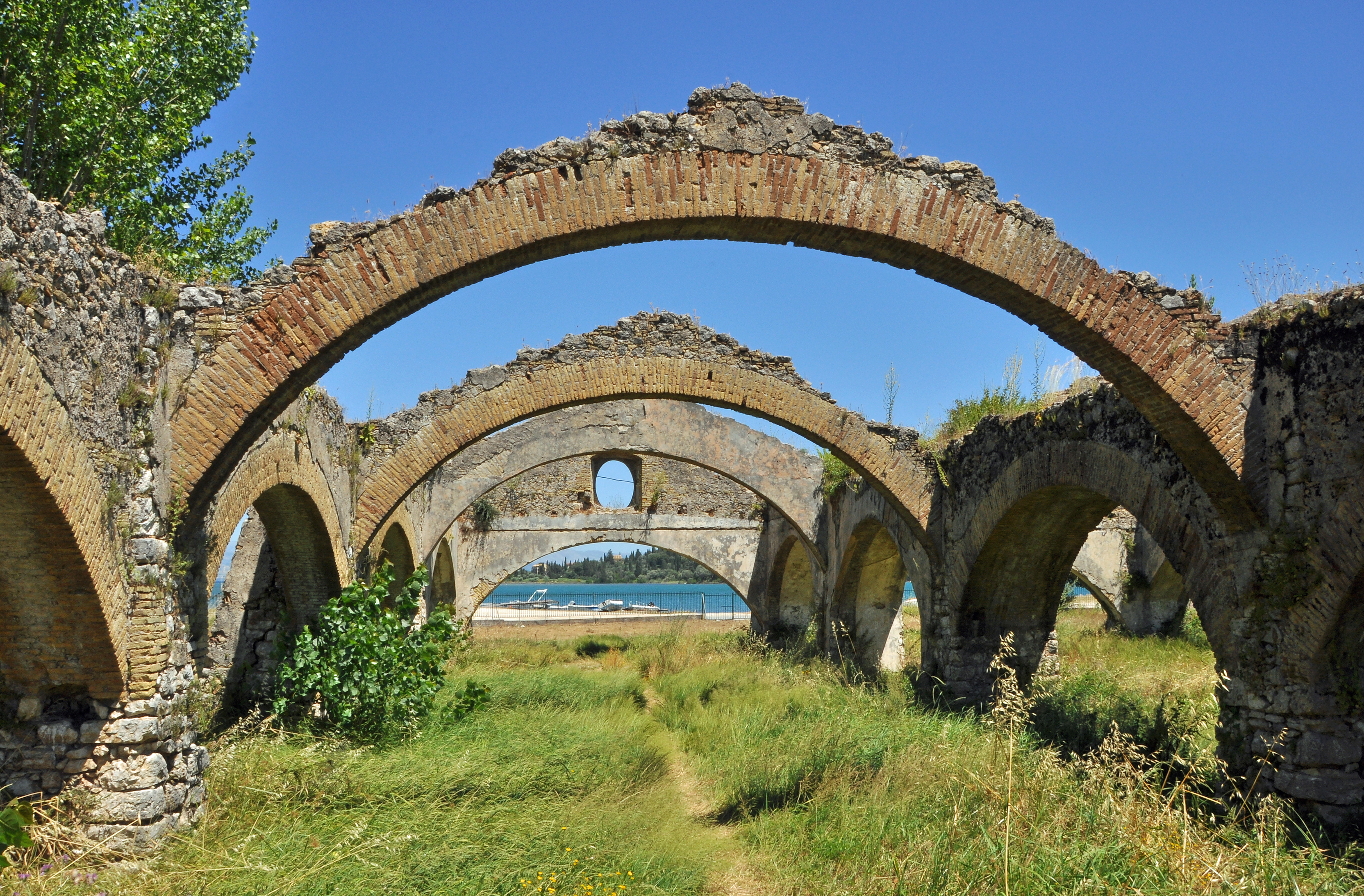 Gouvia (Corfu, Greece): ruins of the former Venetian shipyard